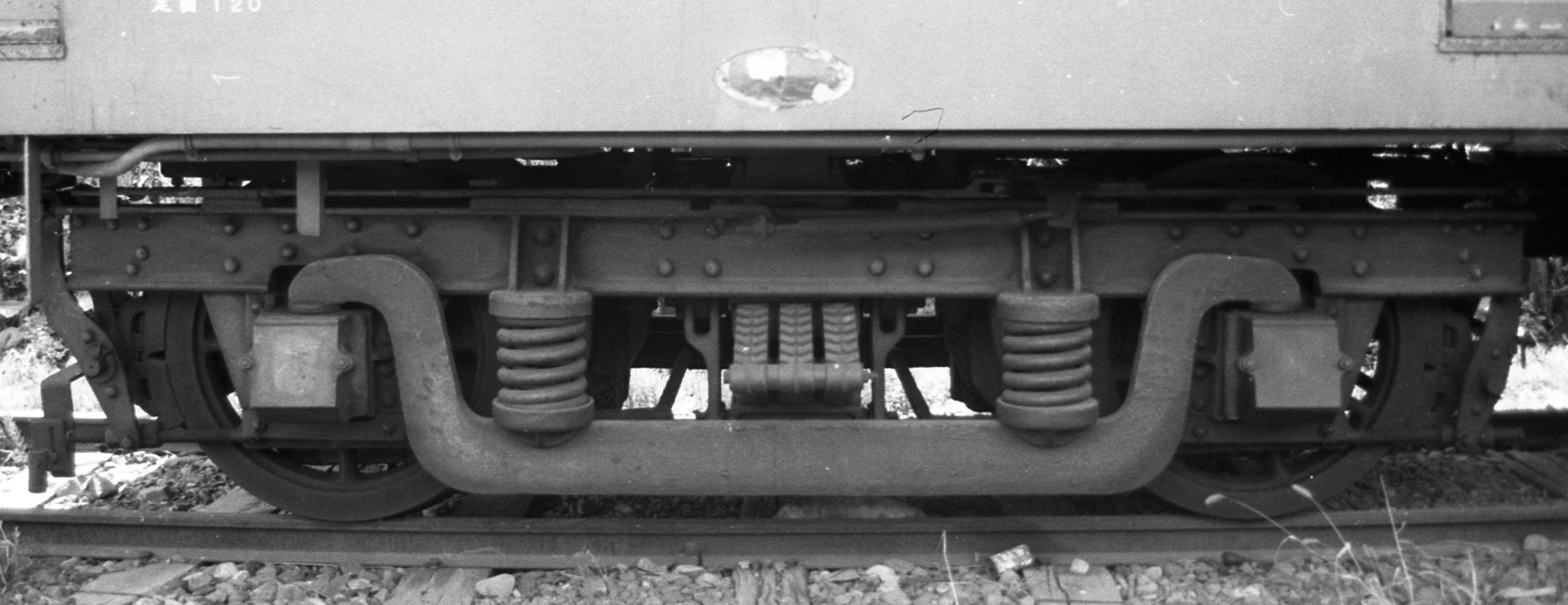 Bogie truck on Matsuden 101 after its withdrawal from operation at Shin Shimashima